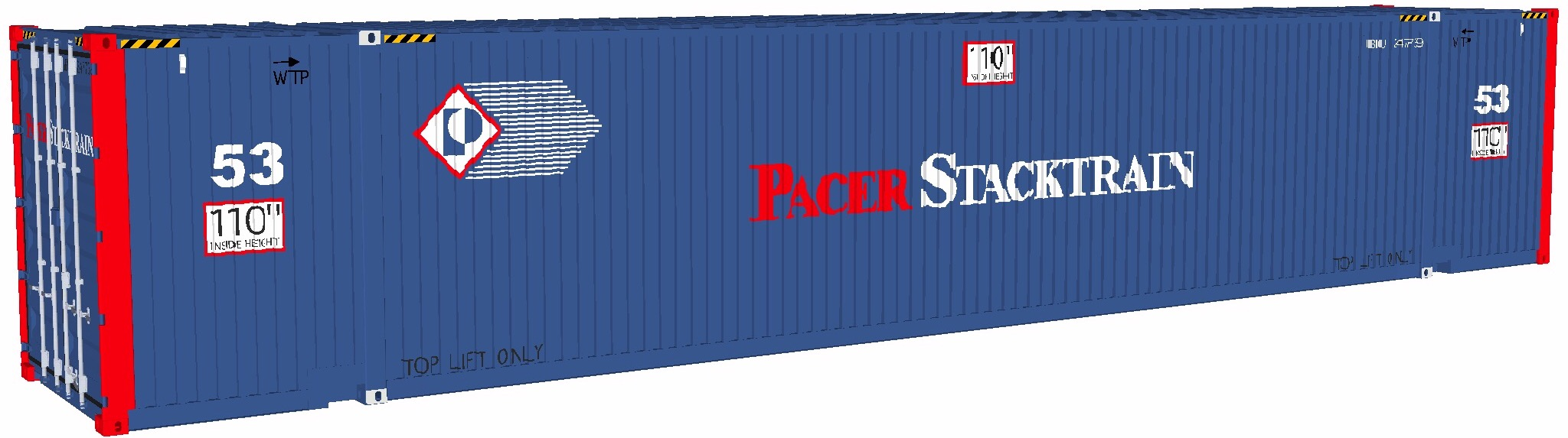 Pacer Stacktrain container